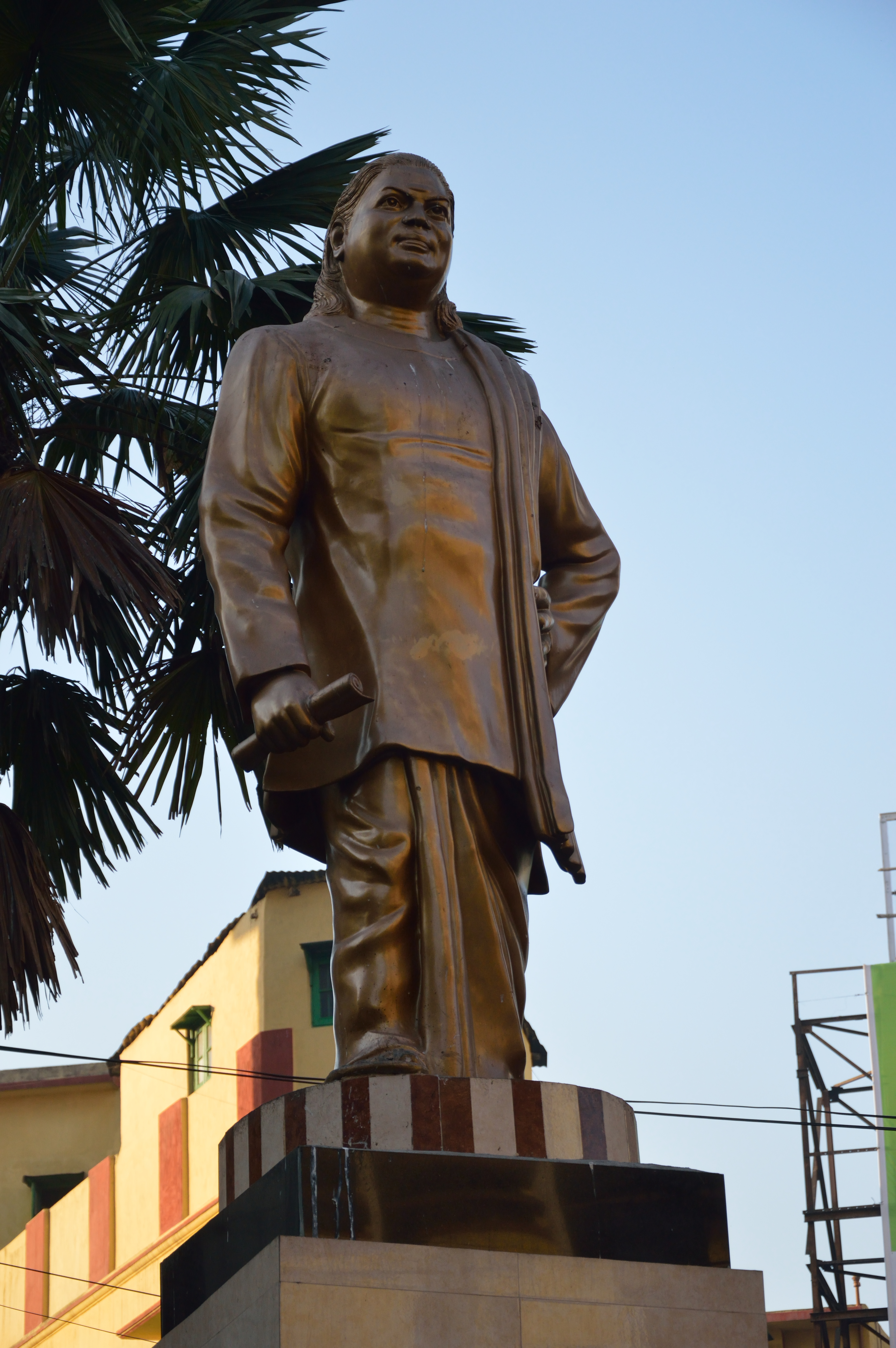 This photograph has been taken during the 'Wikipedia/Wikimedia Photowalk' event for the 'Wikipedia Takes Kolkata II' campaign on 3 March 2013, in Kolkata.